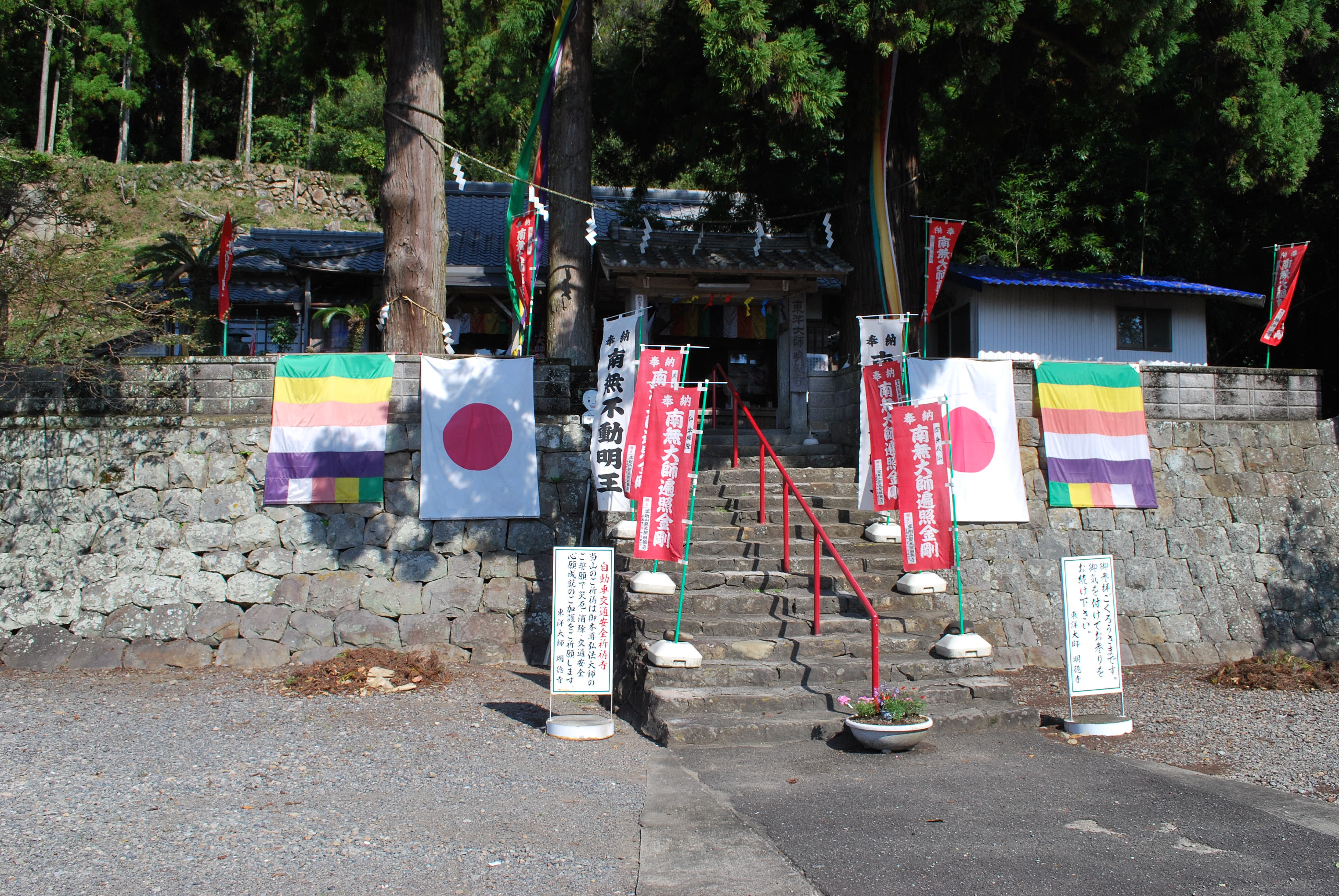 Tōyō-daishi Myōtoku-ji temple